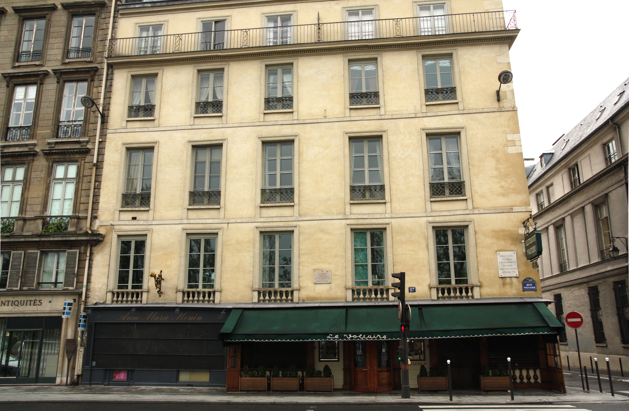 The house, in which Voltaire died, and Cafe Voltaire, Paris